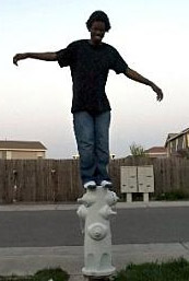 Ben Underwood is a blind american teen who uses echolocation to move around avoiding obstacles